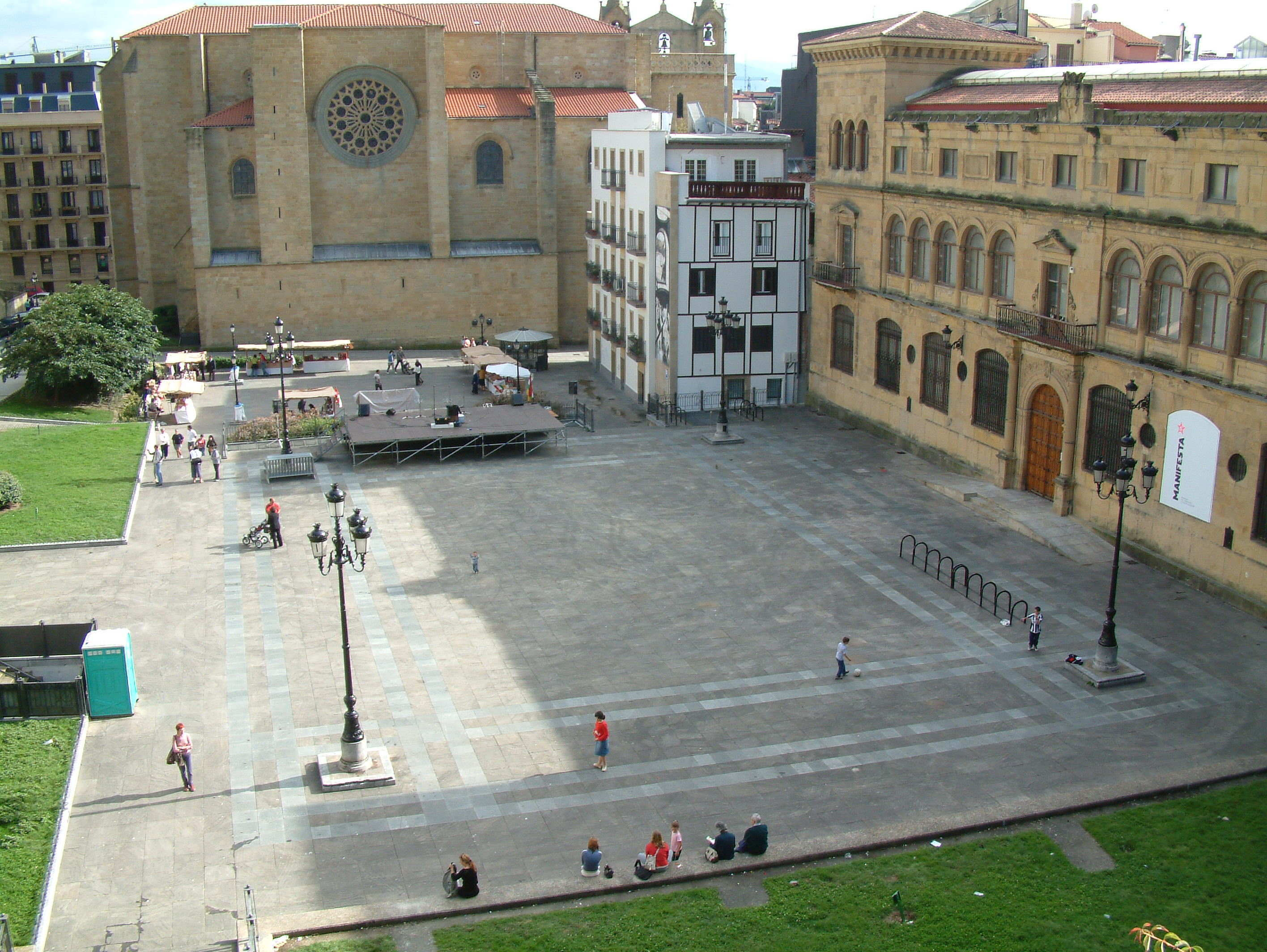 Above Plaza: Looking down on the main plaza used by the San Sebastian Film Festival during Manifesta 5.